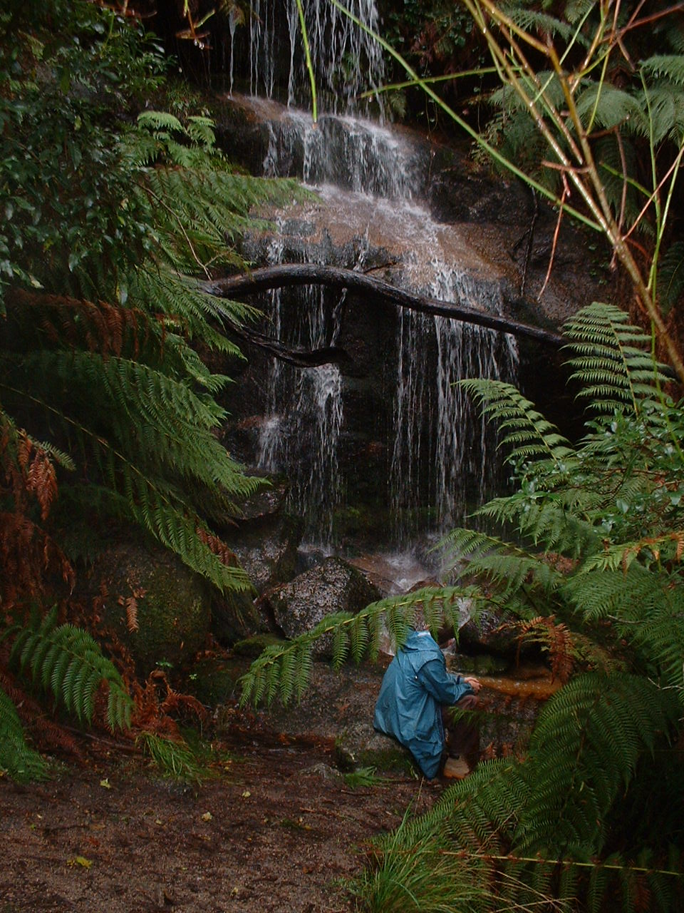 The Ferntree Waterfalls on Middle Creek, in the Mount Cole Forest, Victoria, Australia